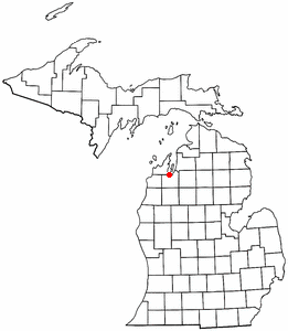 Traverse City, Michigan.